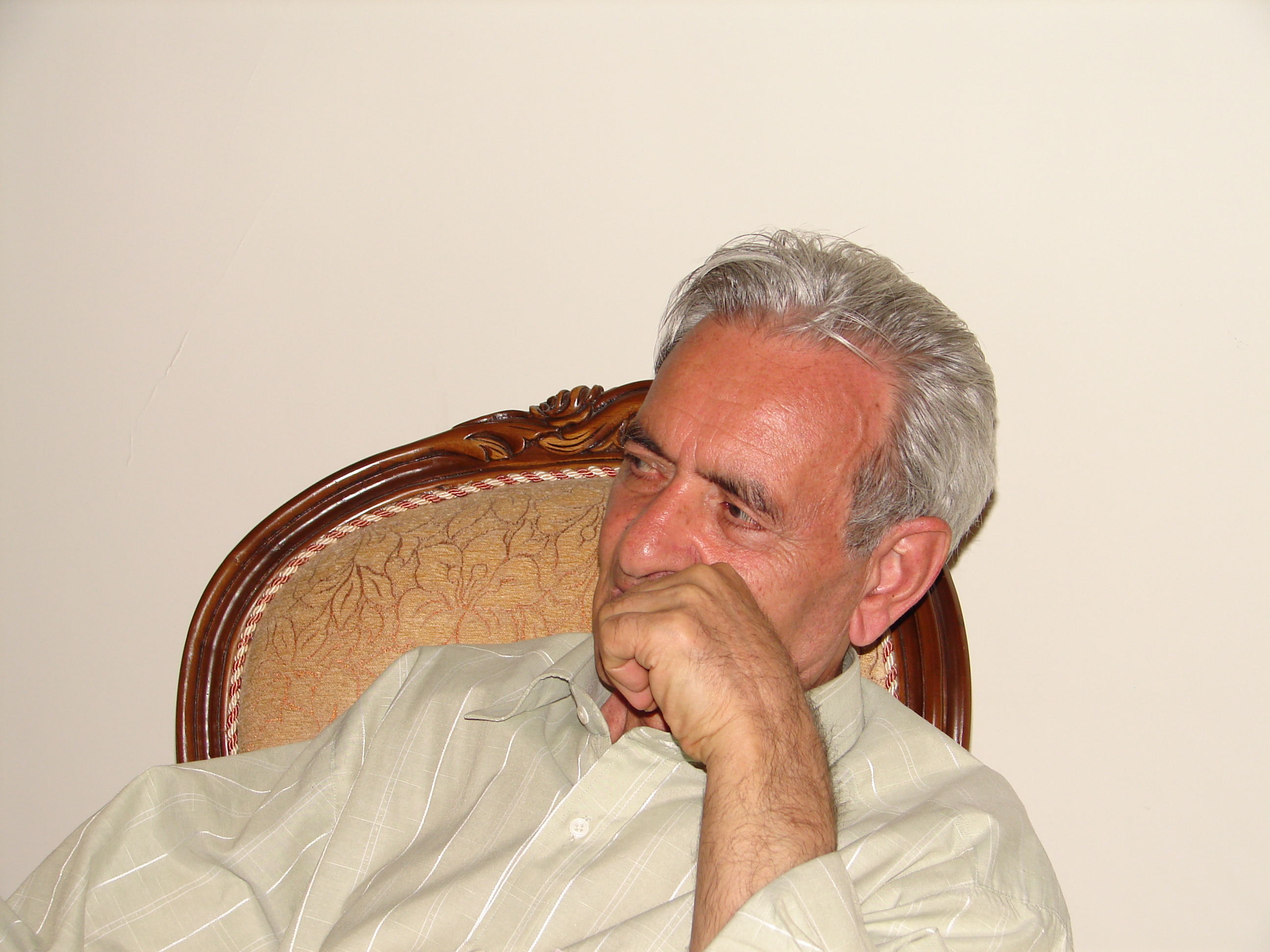 Portrait of Behrooz Servatian, Iranian scholar, Researcher and Literature Critic.